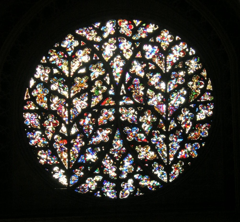 English, window in the South Transept of Lincol Cathedral, 1320-?Flowing Decorated Gothic tracery containing fragments of medieval glass salvaged after the Parliamentary Era.